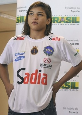 Sarah Menezes, Brazilian olympic judo champion